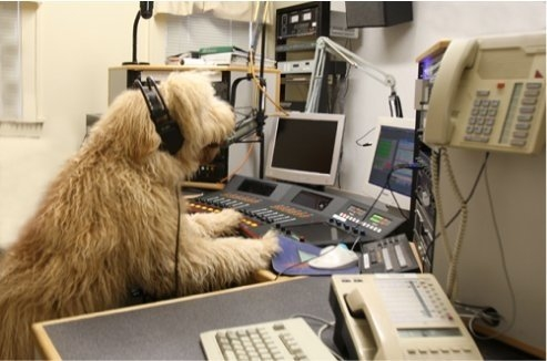 Picture of Dublin, HWS President Mark Gearan's labradoodle, taken in December 2007 by WEOS Staff Photographer Kevin Colton under supervision of WEOS General Manager Aaron Read.